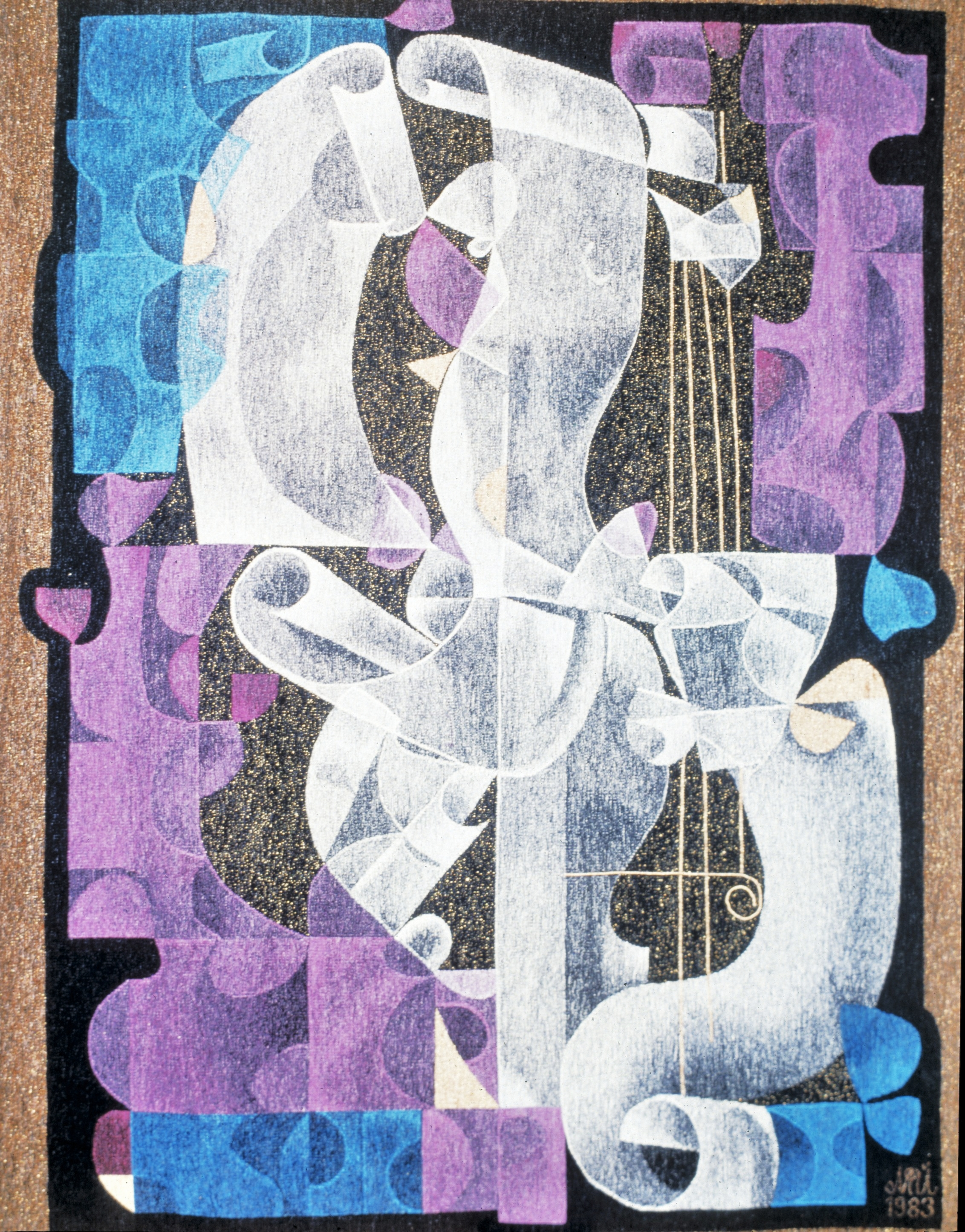 Mara Josifova, wall carpet, "Golden strings" 275cm-250cm, 1980